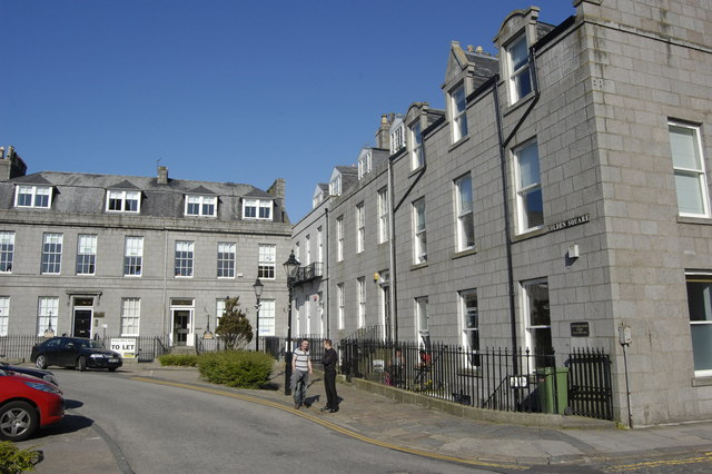 Corner of Golden Square, Aberdeen